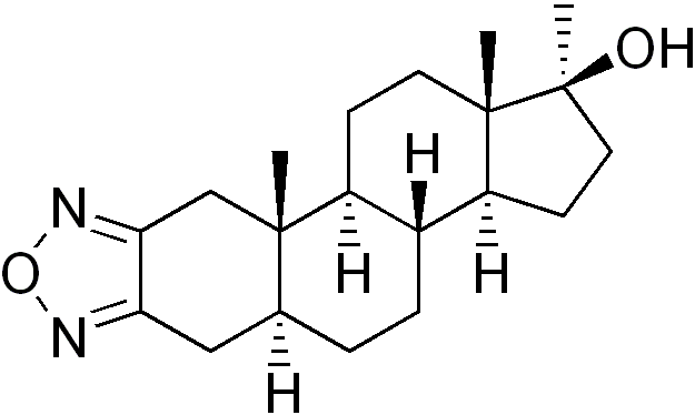 chemical structure of furazabol